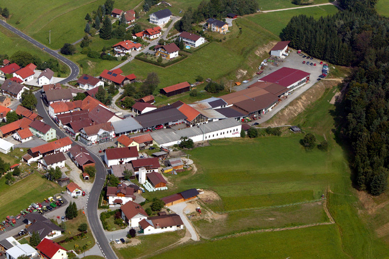 Manufacturing plant and administration of Koeppl GmbH in Bavaria